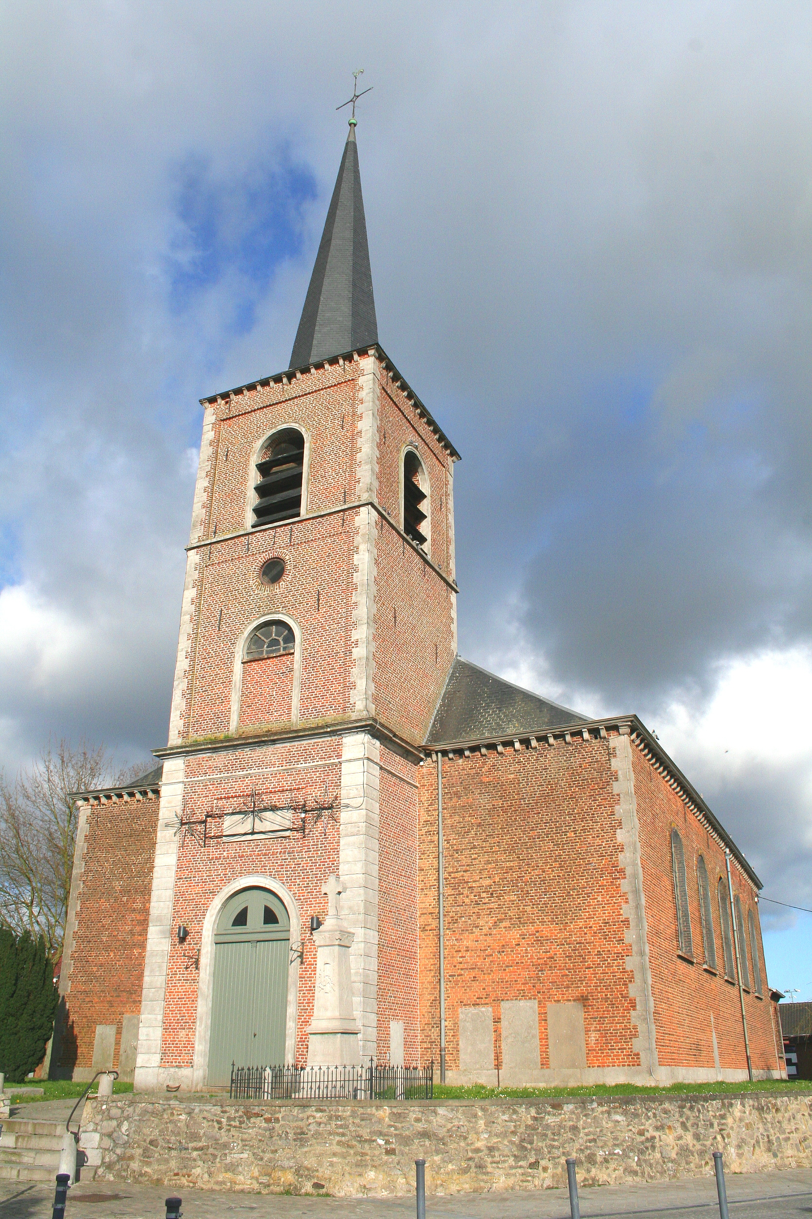 Isières (Belgium), the Saint Peter’s church (1840).